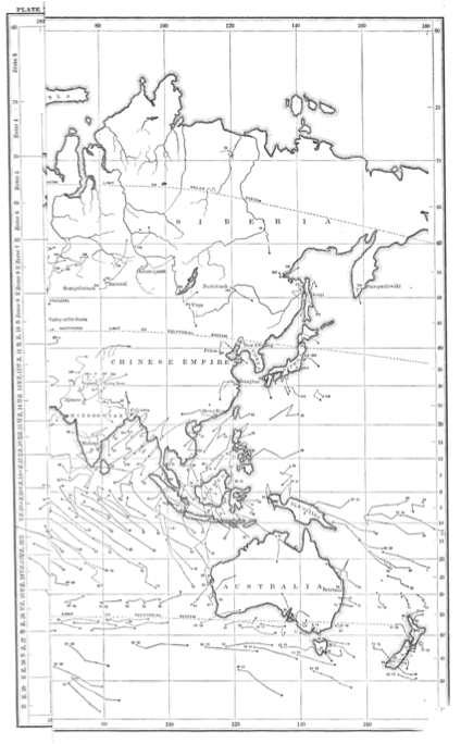 An example of a from James Henry Coffin's The Winds of the Globe